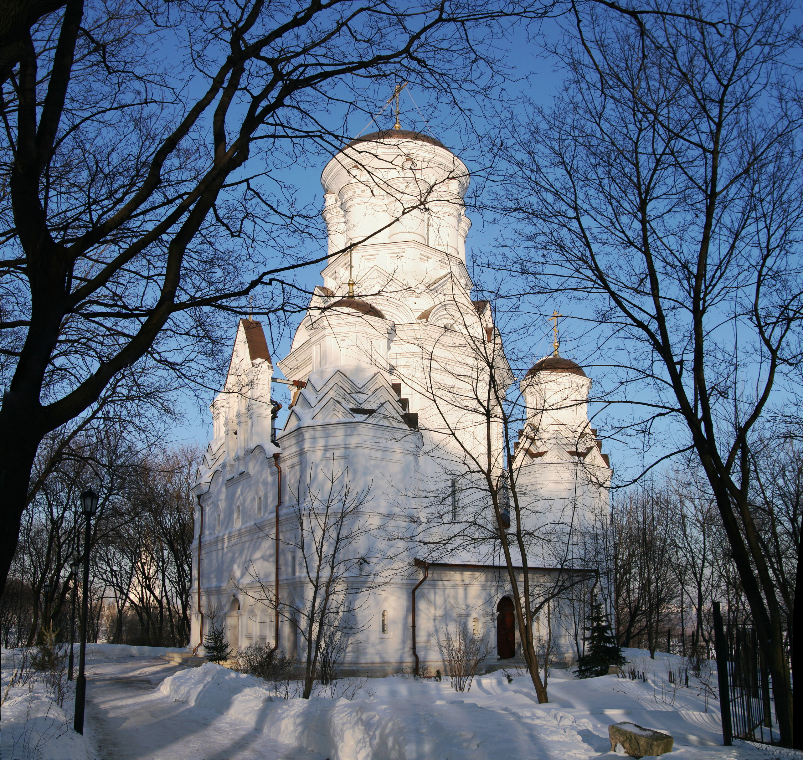 Church of St. John the Baptist (middle of XVI c), Kolomenskoe, Moscow